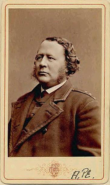 Per Elof Arrhenius, Swedish commander.